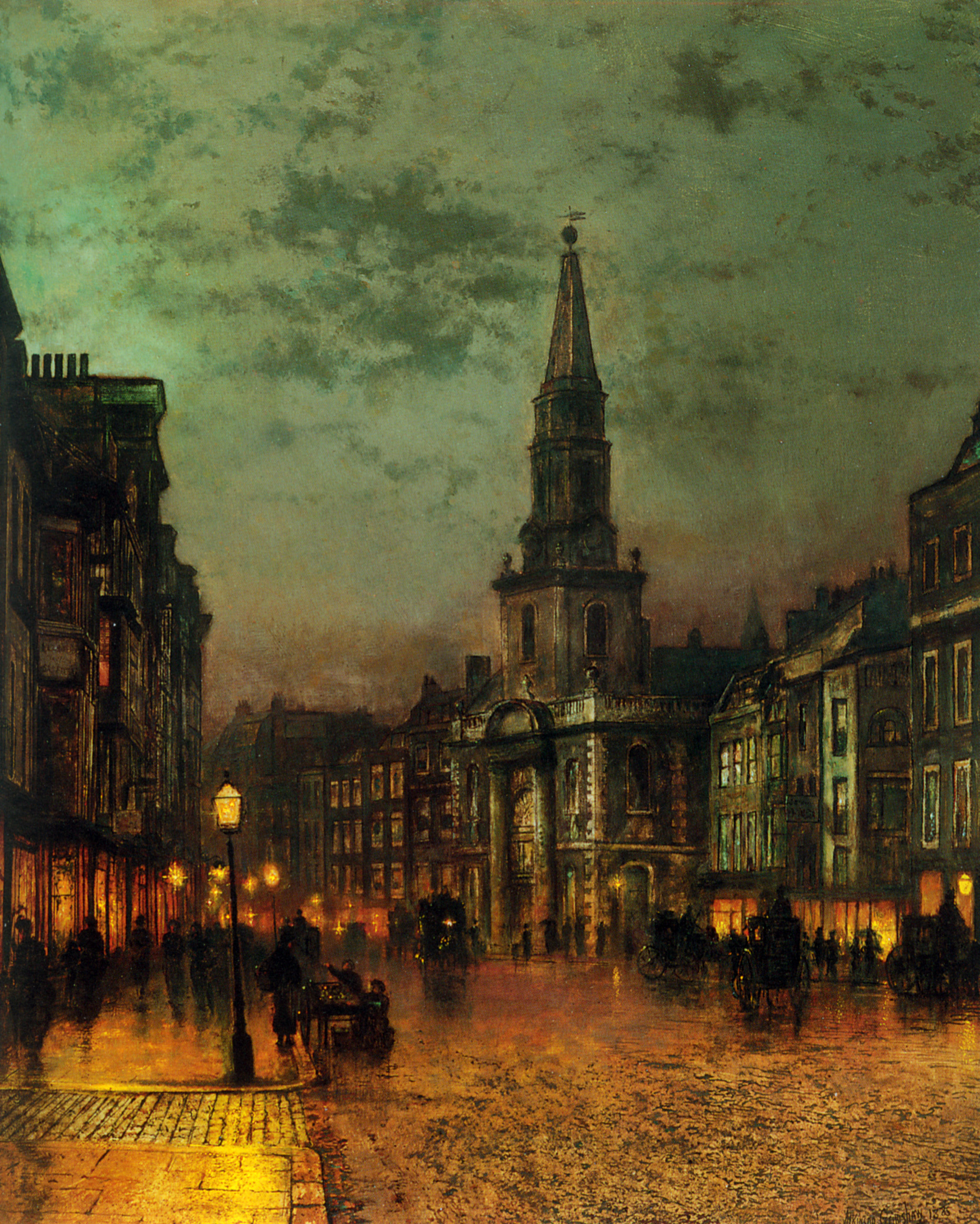 Blackman Street, London